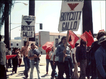 Branch: King Library. Date: 5/28/2008. Description: Cultural Heritage Center historical image.